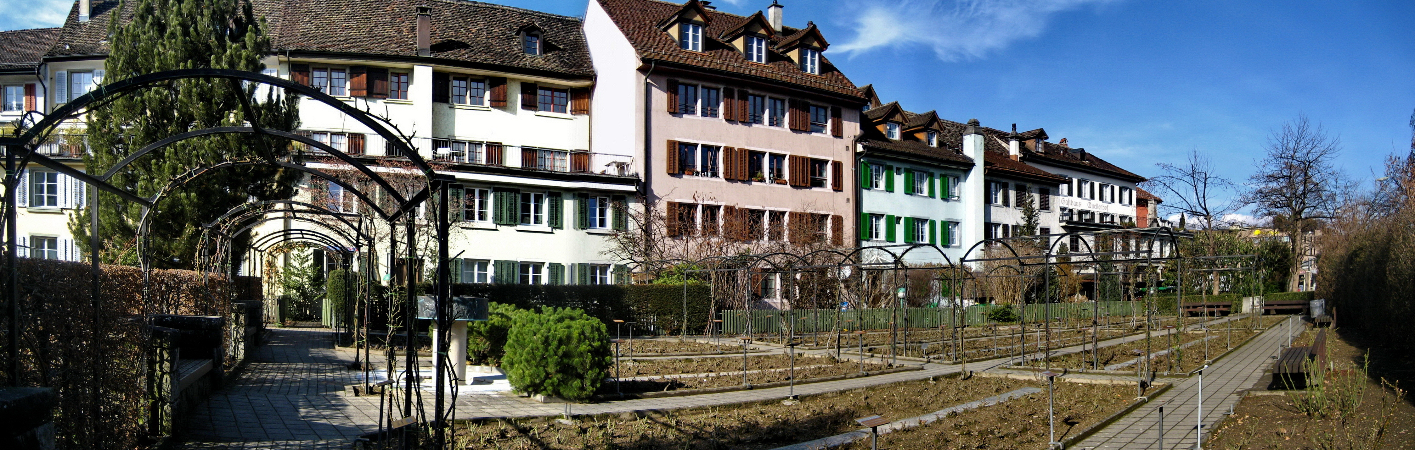 Rapperswil (SG) : Duftrosengarten for blind people, Circus Knie fountain created by Hans Erni to the left.